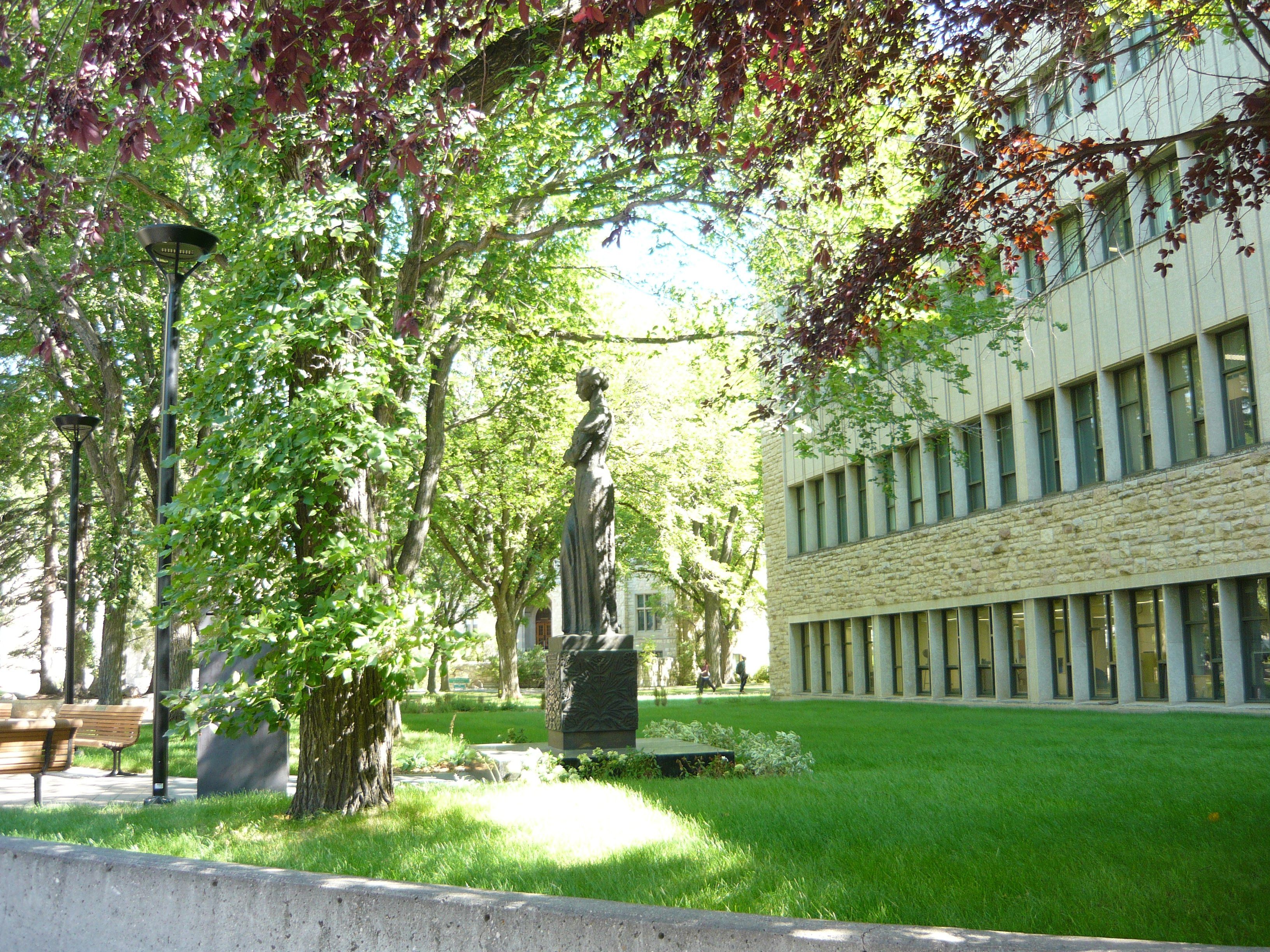 Statue of Lesya Ukrainka near the Murray Building, University of Saskatchewan, Saskatoon, Saskatchewan, Canada.